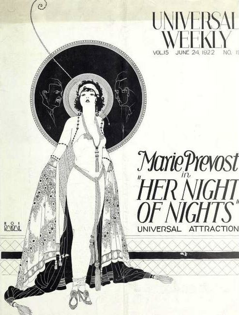 Ad for the American film Her Night of Nights (1922) with Marie Prevost, on the cover of the June 24, 1922 Universal Weekly.